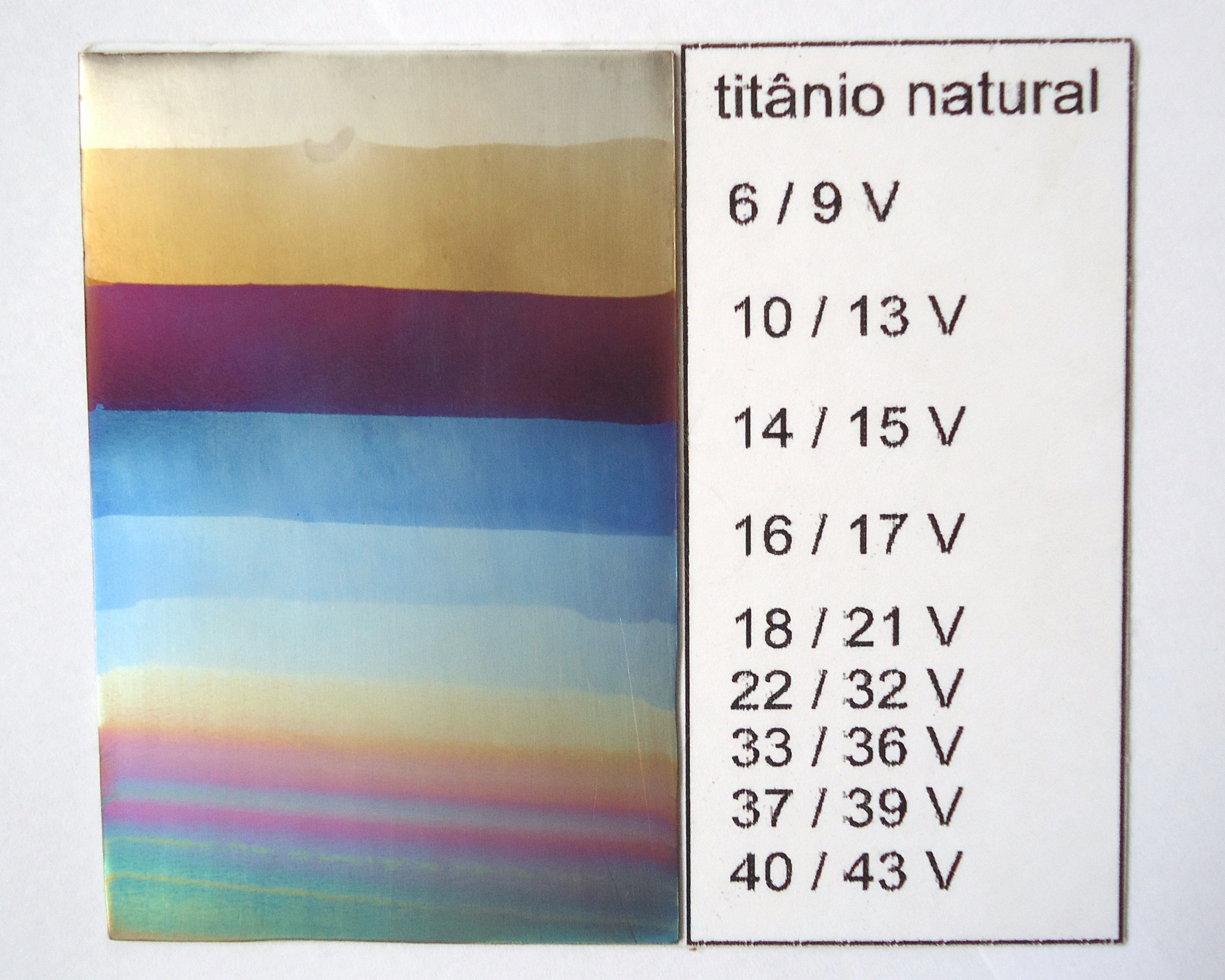 Relation between voltage and color for anodized titanium. Made by Mauro Cateb, Brazilian jeweler.